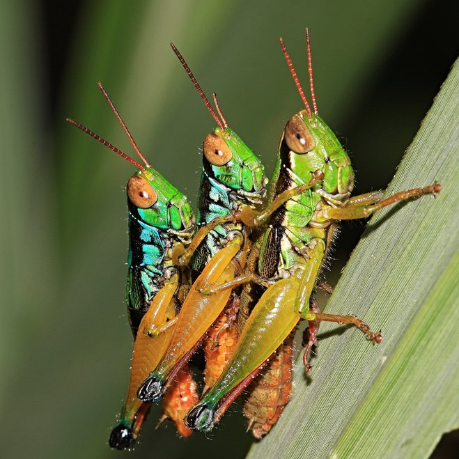 2 male (blue tegmina) & 1 female (green tegmina) Grasshoppers sat in harmony on this culm for hours; they hear with their first abdominal segment and use vibrations to locate each other. Even when they reach maturity wings are not fully developed so they can not fly. In the rice fields they are prey to dragonflies and the local communities also collect them to eat. Caryanda spuria STÅL, 1861 Subfamily: Oxyinae Famiily: Acrididae (Feldheuschrecken) Superfamily: Acridoidea Infraorder: Acrididea Suborder: Caelifera (short-horned grasshopper, Kurzfühlerschrecken) Order: Orthoptera (Springschrecken) taxonomical info: Indonesia, W-Java, 33km WNW Bogor (Halimun-Salak-NP): vic. Cipeteuy (at the edge of paddy fields), ca. 1100m asl., 21.09.2010 Description: ~2cm, yellow body with black bands, yellow legs and blue-green knees. The upper-side of ♂ is green and the tegmina (hardened fore-wings) are blue-metallic while ♀ show a brown upper-side and tegmina are green. Distribution: Java. The Genus Caryanda is widely distributed in the tropics and subtropics of the old world. Habitat: commonly found in grasslands, in open areas and paths in the forest and in farmland (mainly paddy), 0-1200m asl. ________________________________________________________________________ 100mm 2.8 macro (Canon, L): 1/125s, f13, ISO100, 0 EV, built-in flash, hand-held (IMG_9130)